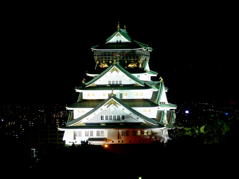 Osaka Castle.(Chuo Ward, Osaka City, Osaka Prefecture, Japan)